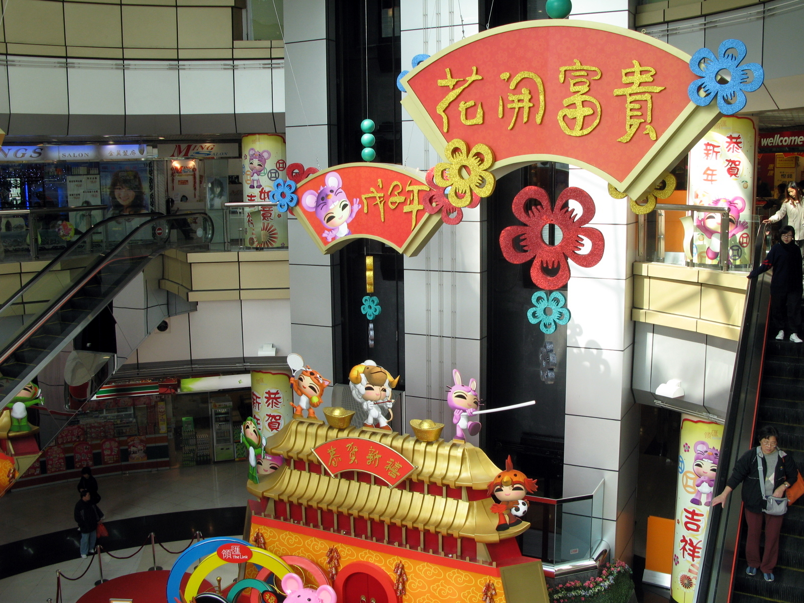 HK Chung Fu Shopping Centre in Tin Shui Wai